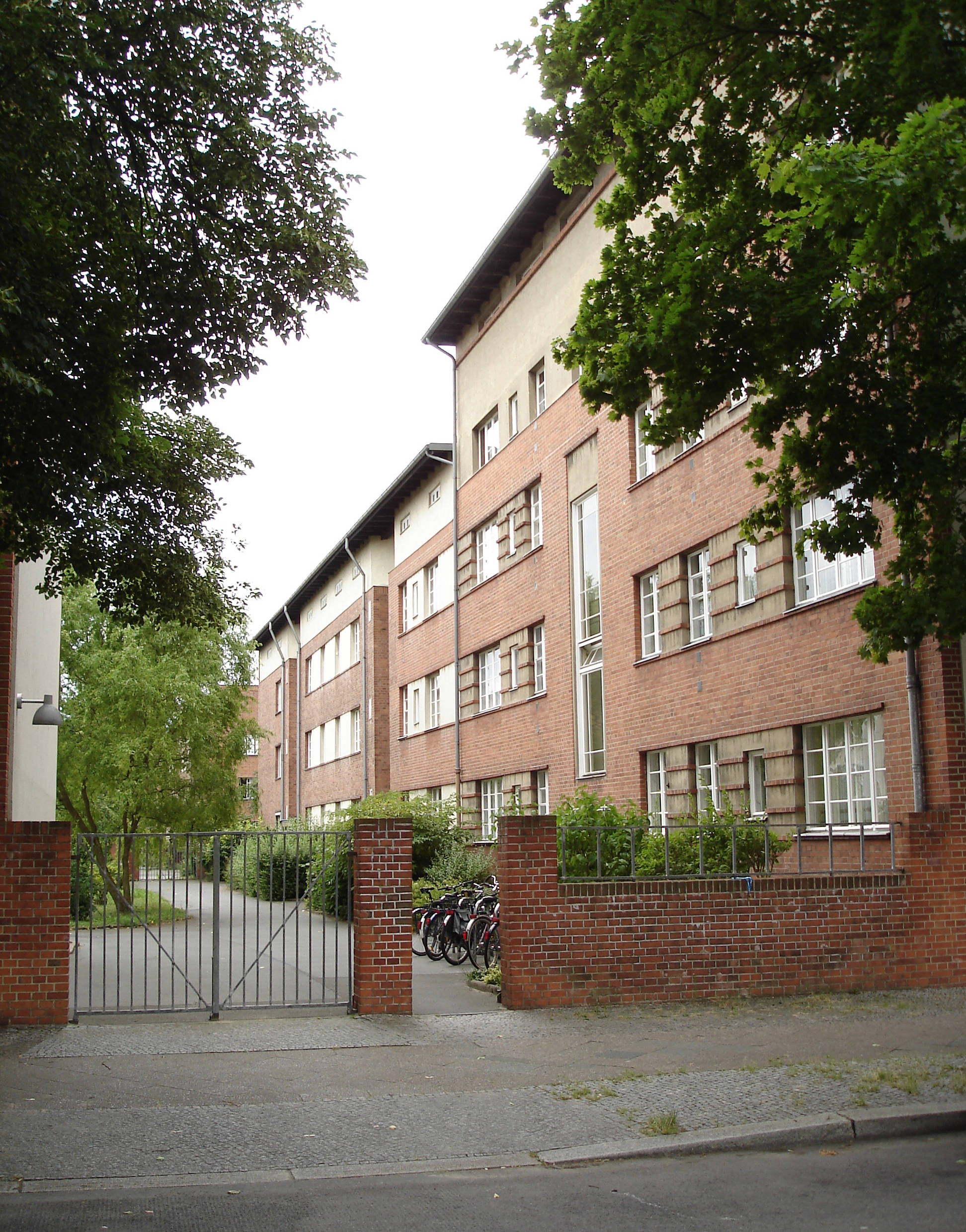 Schillerpark Housing Estate in Berlin-Wedding; back view of the buildings Bristolstraße 1, 3 and 5 from Dubliner Straße